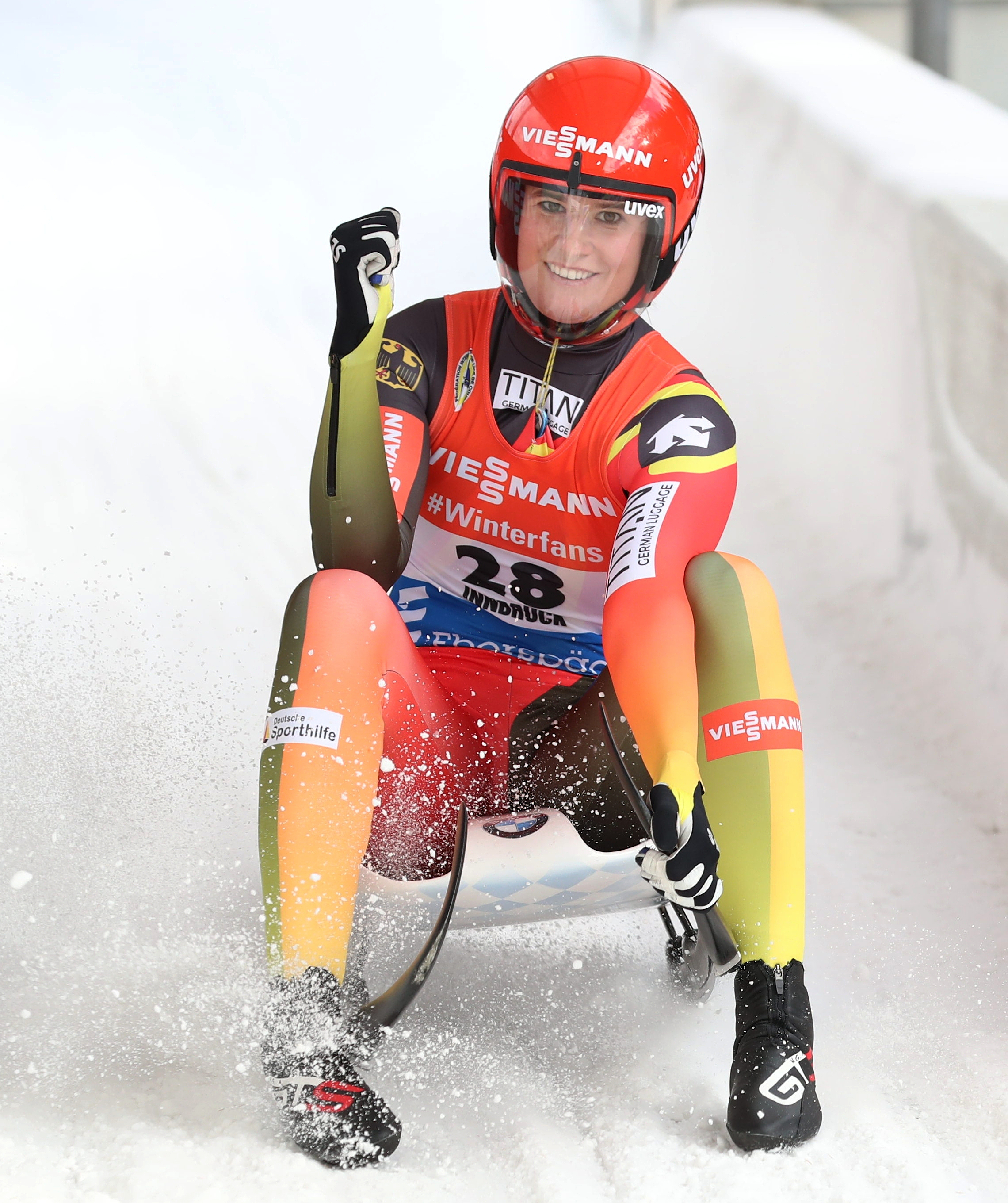 Women's World Cup race at the 2018/19 Luge World Cup in Innsbruck-Igls: Natalie Geisenberger